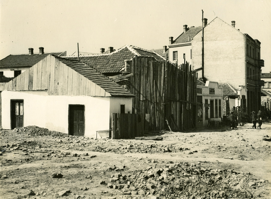 Old Belgrade Streets